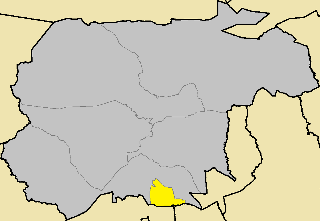 Chrysida in Kythrea Municipality (de jure).